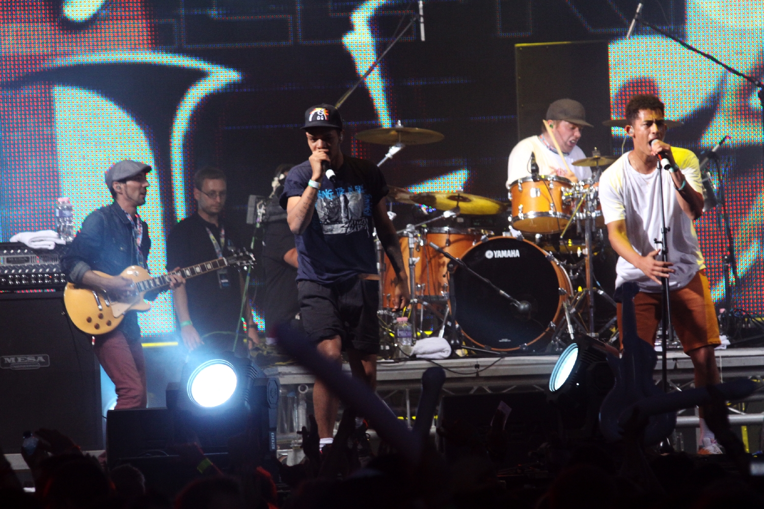 Rizzle Kicks cantando